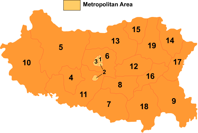 Map of Handan in Hebei province